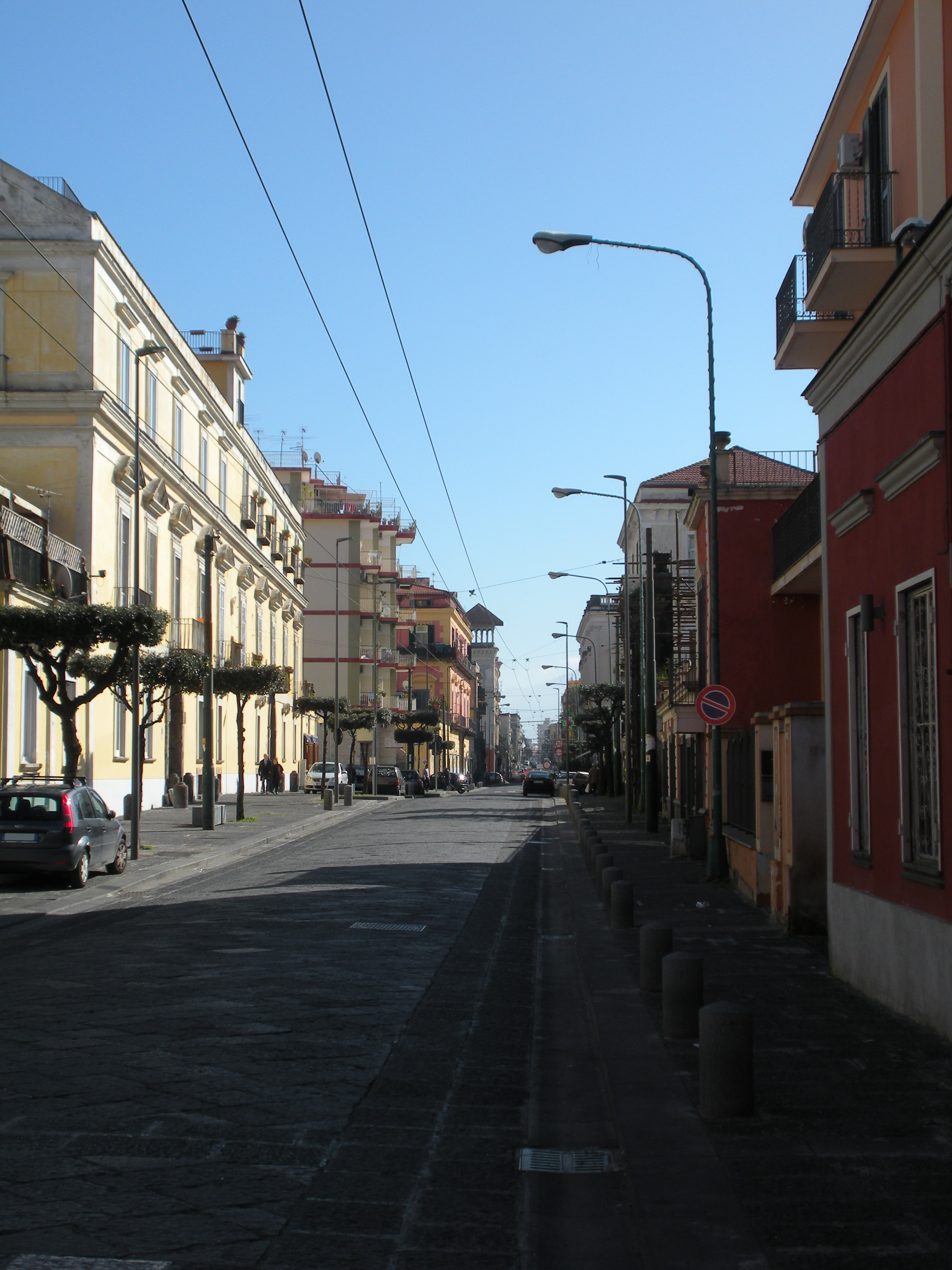 A leg of the Miglio d'Oro (The Golden Mile) in Ercolano